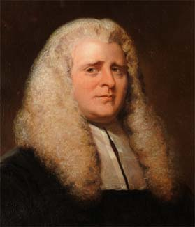 John Wilson (1741-1793), british mathematician and lawyer.